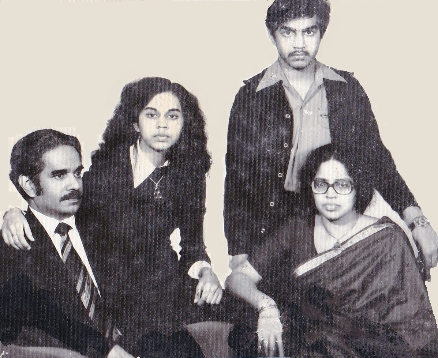 image of Moscow Gopalakrishnans family